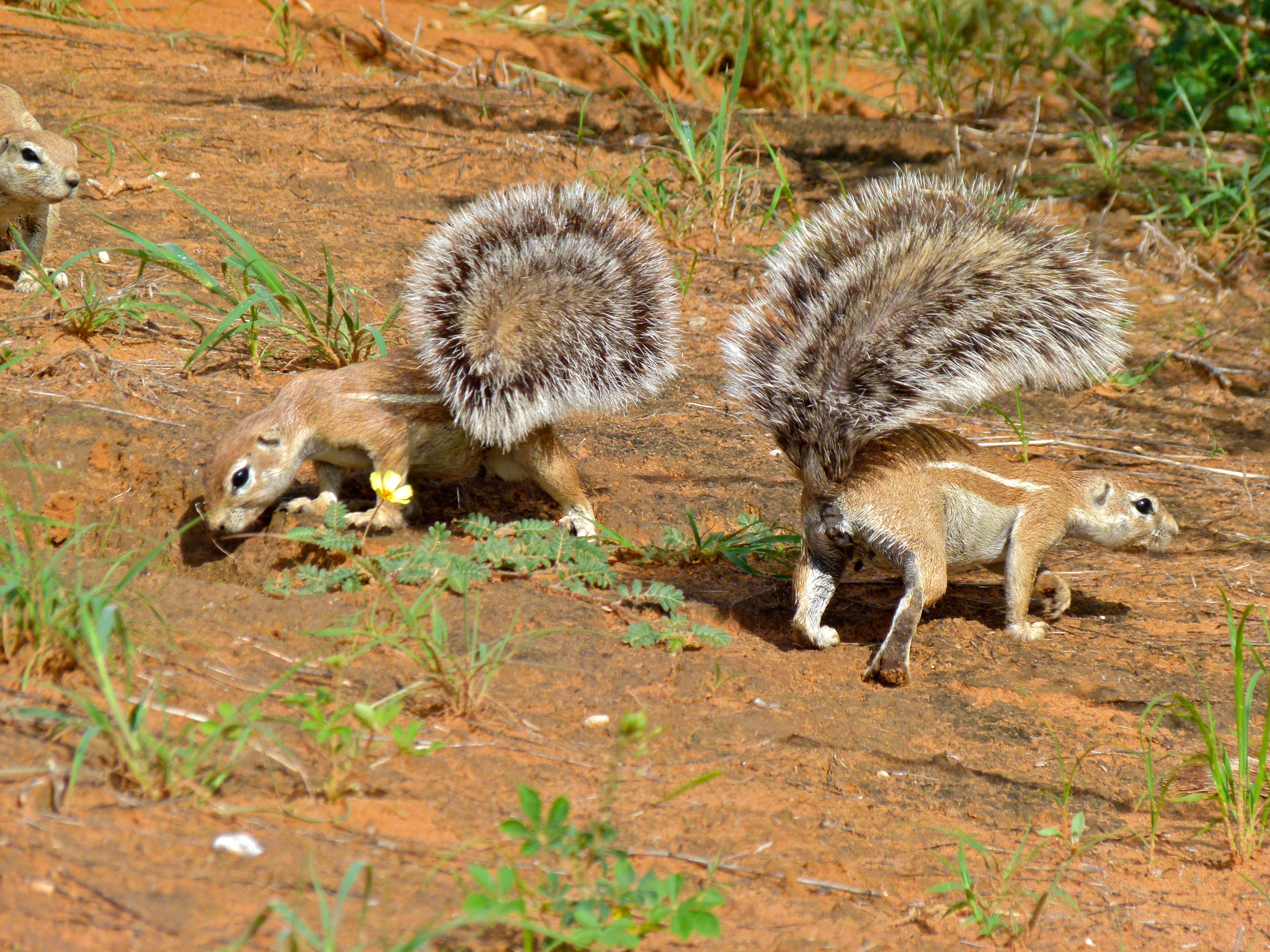 Auob River Bed, Kgalagadi Transfrontier Park, SOUTH AFRICA